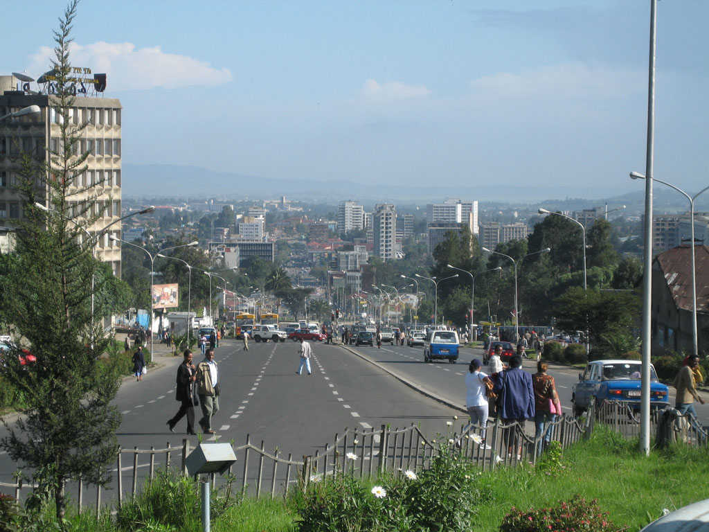 View over Churchill Road in Addis Abeba